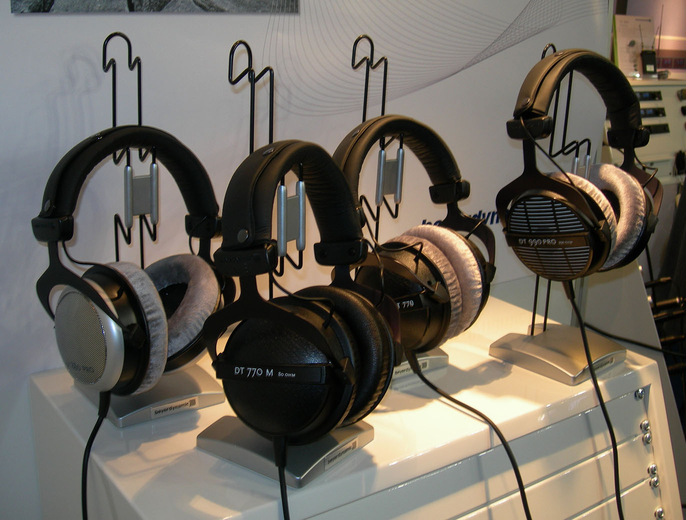 headphones by Beyerdynamic: DT 880 PRO, DT 770 M, DT 770, DT 990 PRO; IBC 2008, Amsterdam